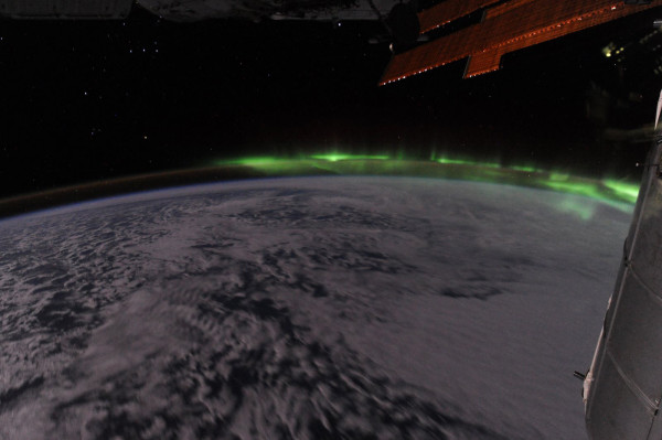 View of the Aurora Australis from the International Space Station